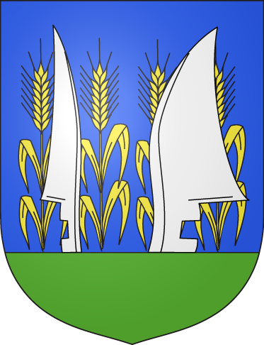 Coat of arms Budapest District XXI